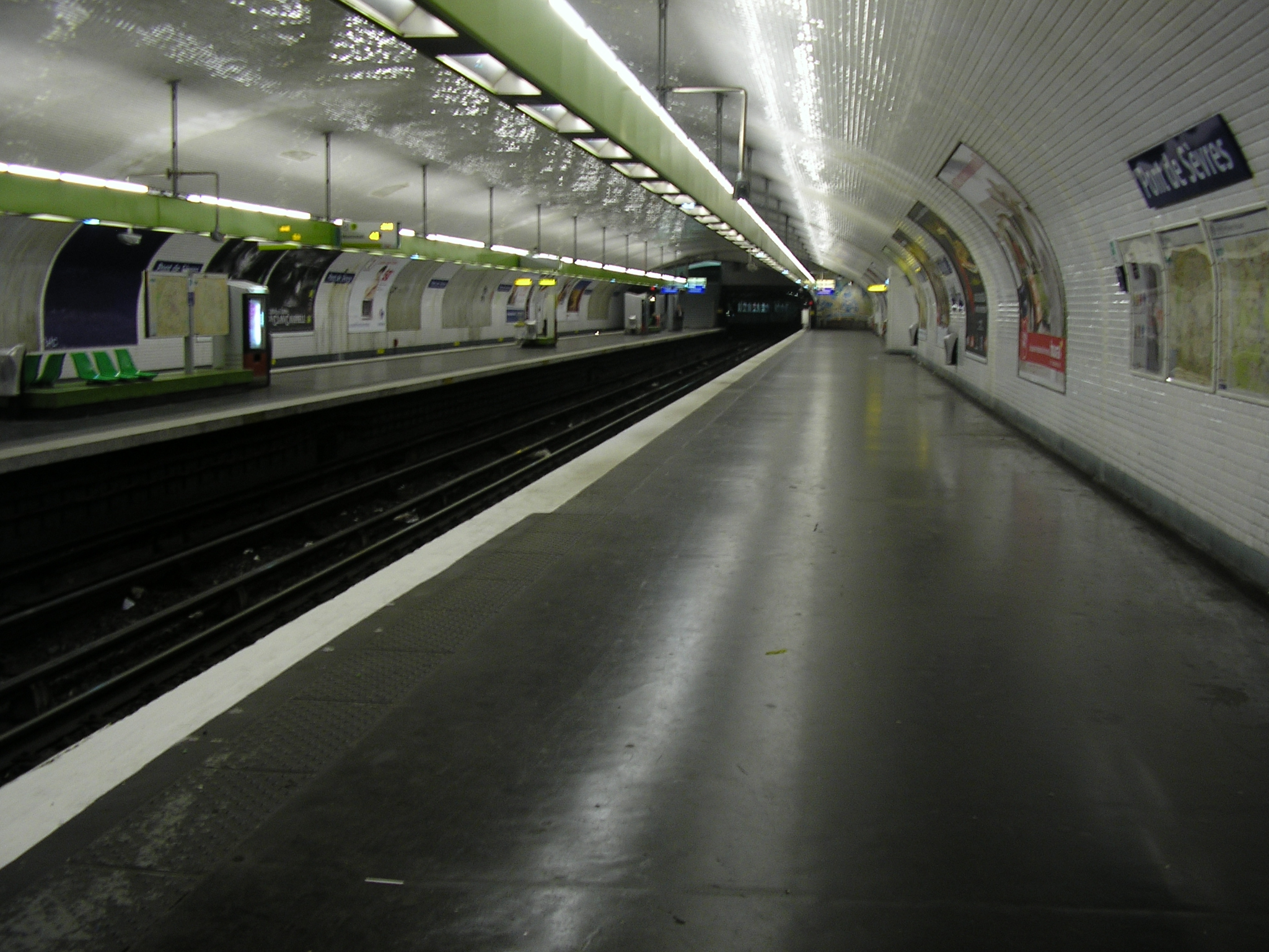 Station Pont de Sèvres, line 9 of the Paris metro